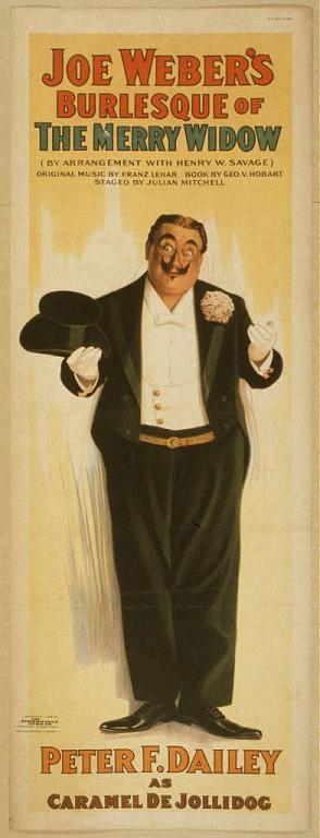 Comedian Peter F. Dailey ca. 1890s